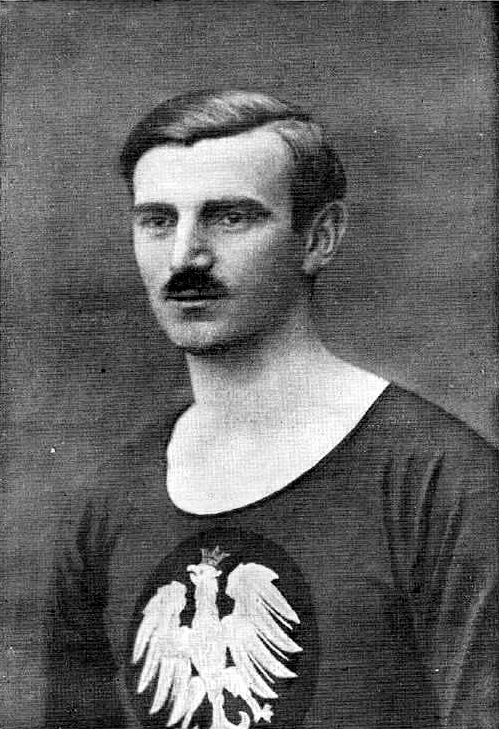 Polish multisport champion Wacław Kuchar known mainly because of football and athletics